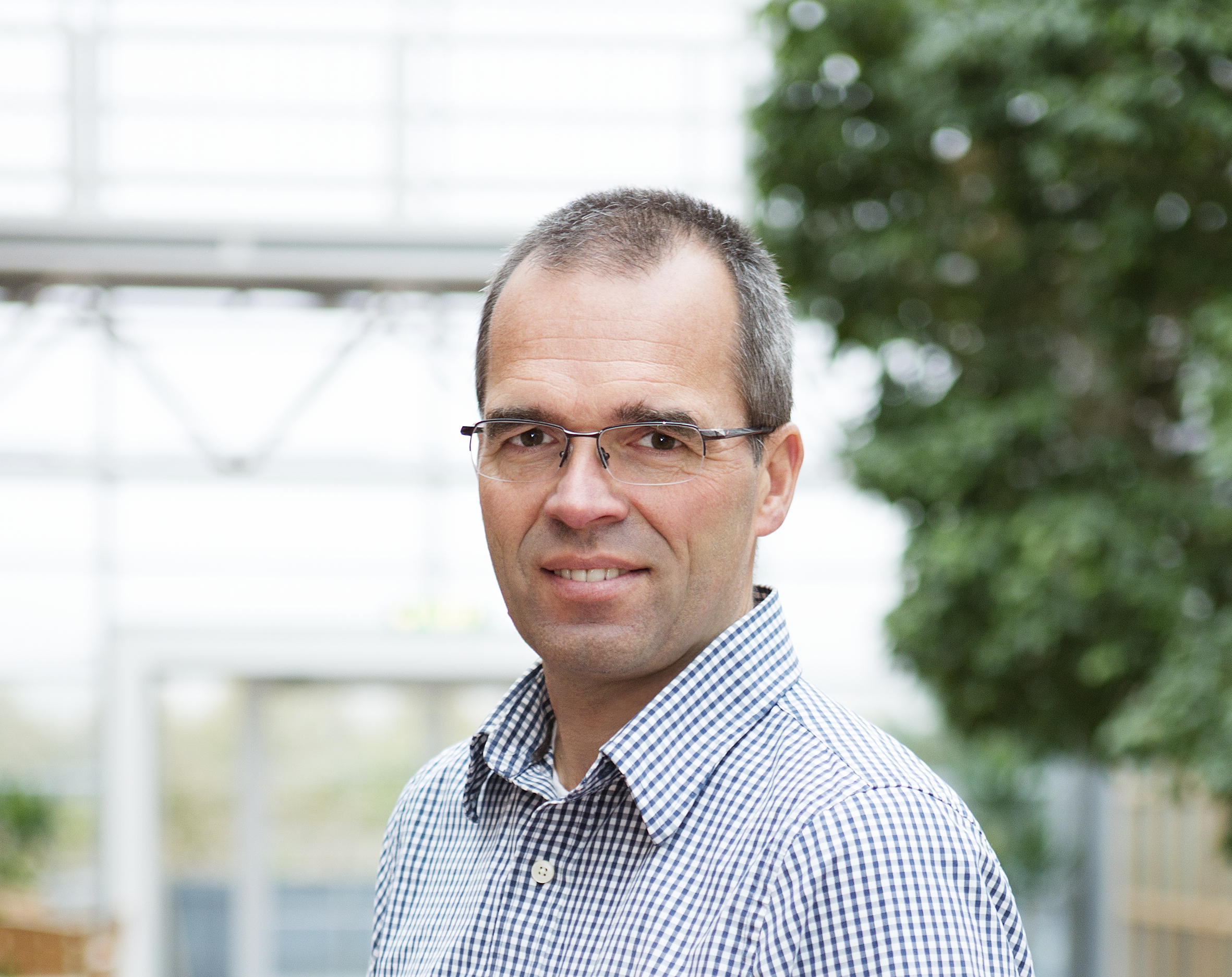 The Norwegian economist, professor at NTNU Trondheim, Ragnar Torvik